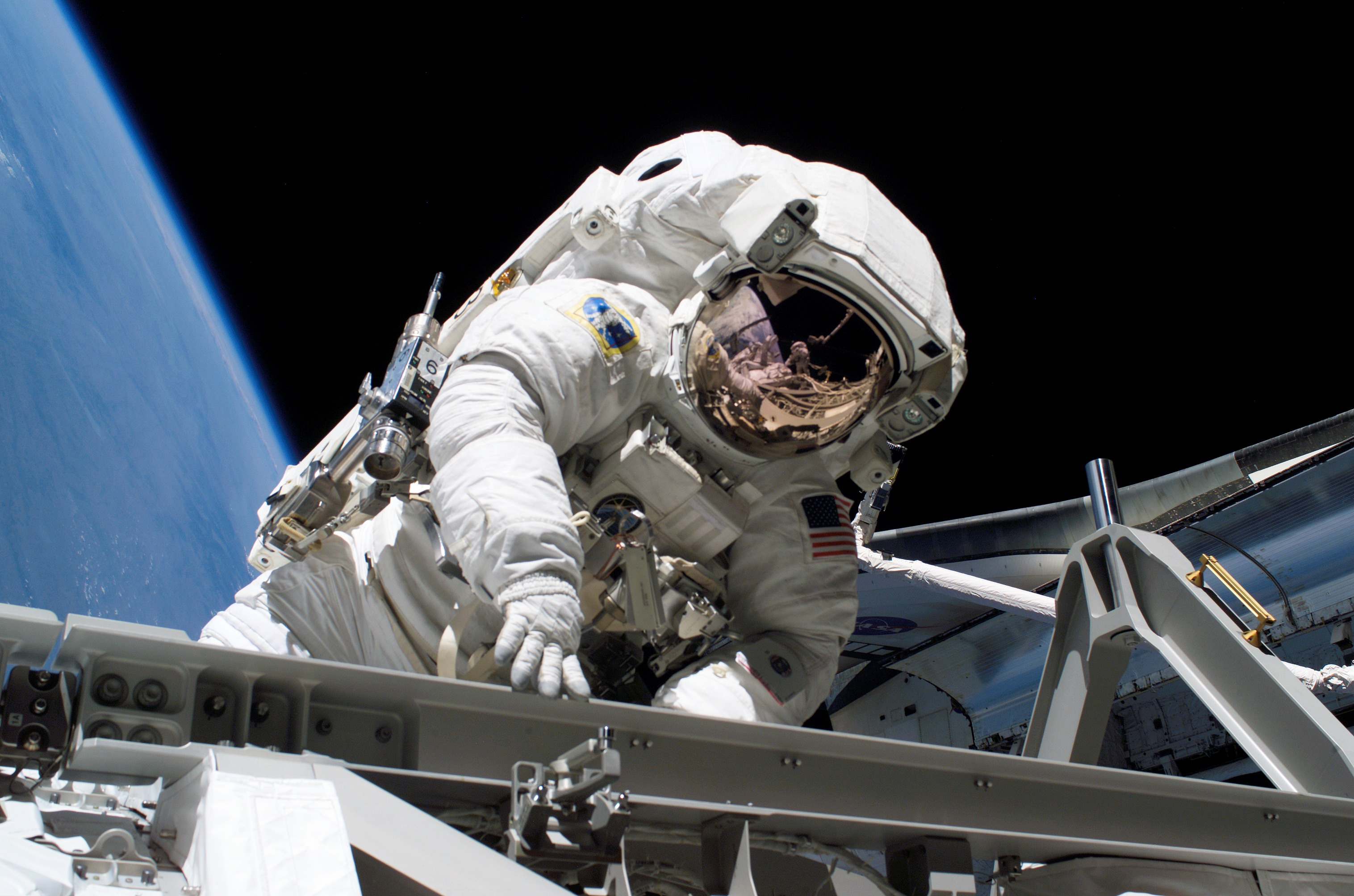 Astronaut Heidemarie M. Stefanyshyn-Piper, STS-115 mission specialist, pauses for a moment during the Sept. 12 spacewalk, which she shared with astronaut Joseph R. Tanner. The two participated in the first of three scheduled STS-115 extravehicular activity (EVA) sessions as the Atlantis astronauts and the Expedition 13 crew members join efforts this week to resume construction of the International Space Station.